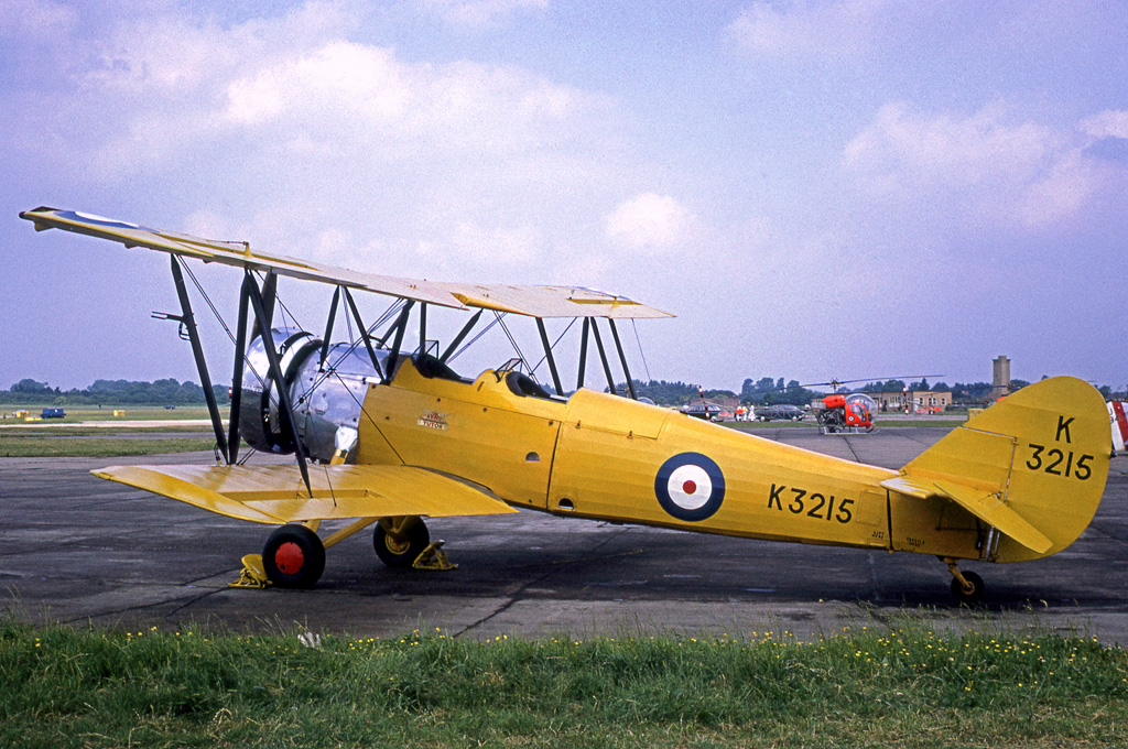 Avro 621 Tutor K3215 (G-AHSA) wearing its original prewar RAF training colour scheme at RAF Abingdon in 1968